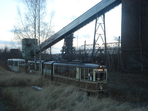 trams of public-transport-museum "Bahnhof Mooskamp" on track HHW 6141, Hansa-cokery, Dortmund-Huckarde